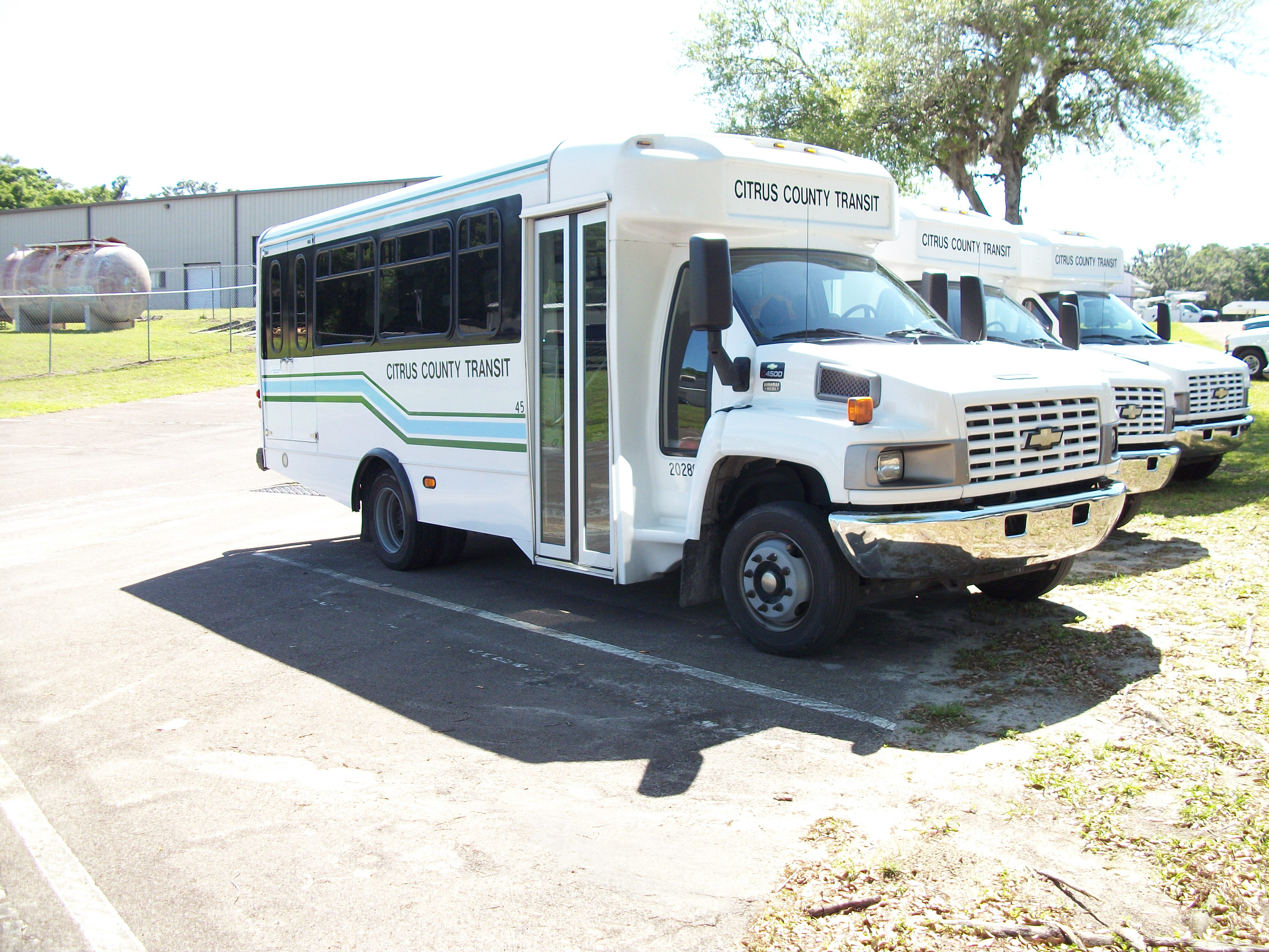 A Chevrolet C-4500 bus owned by Citrus County Transit, at a county vehicle maitenance lot on Citrus County Road 491 in Lecanto, Florida.